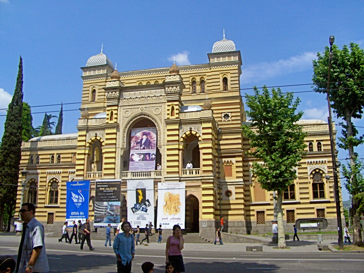 The Opera House in Tbilisi, Georgia. The street was closed after the parade to allow people to walk around.